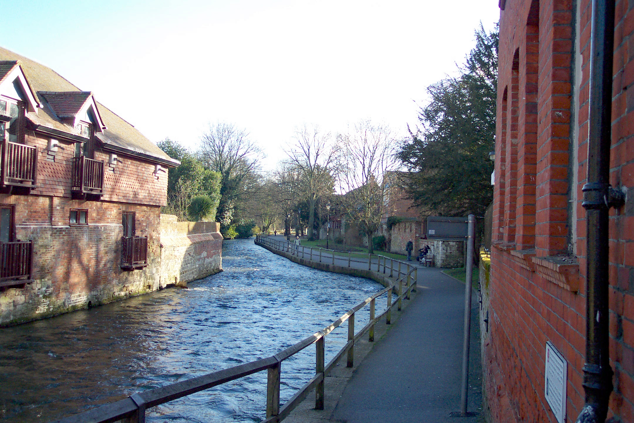 'The Weirs' on the River Itchen in Winchester, Hampshire, England. For more information see the Wikipedia article River Itchen, Hampshire.